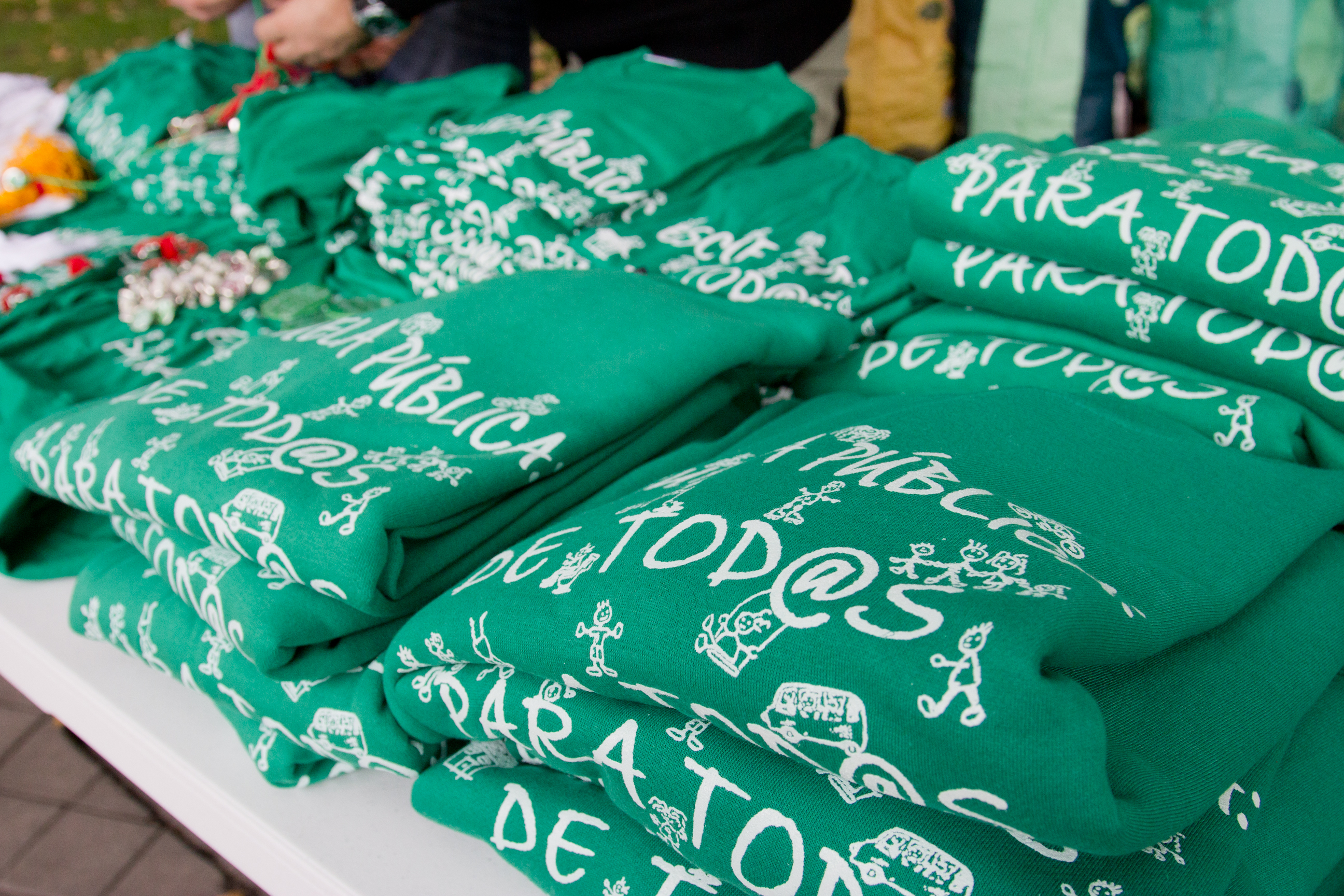 Demonstration in Madrid against cuts in education and education law reform.